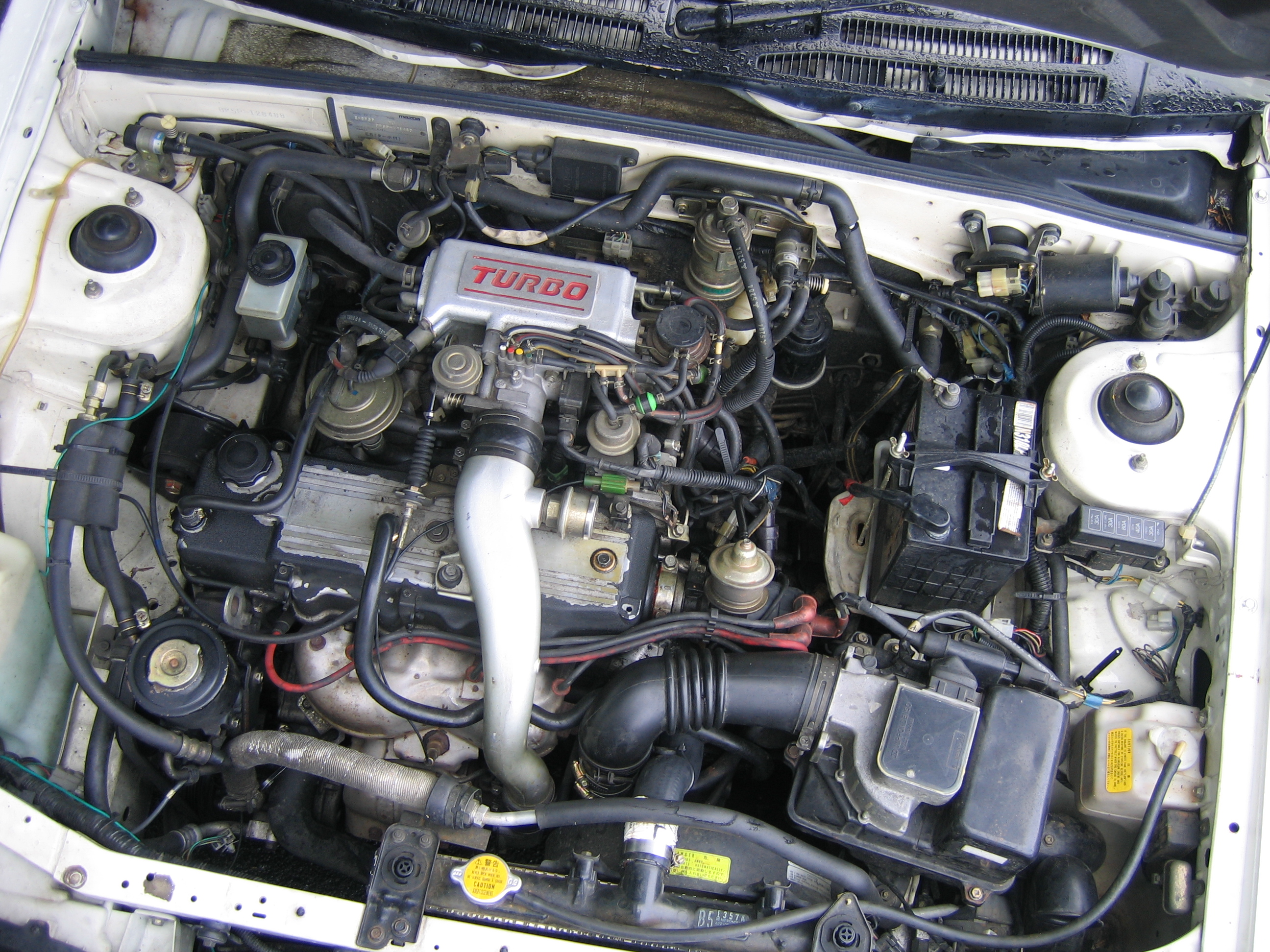 1490 cc SOHC Mazda E5T engine of a 1986 Mazda Familia (BF5P) XG turbo sedan. Released in 1983, it was the first production piston turbocharged engine by this manufacturer.